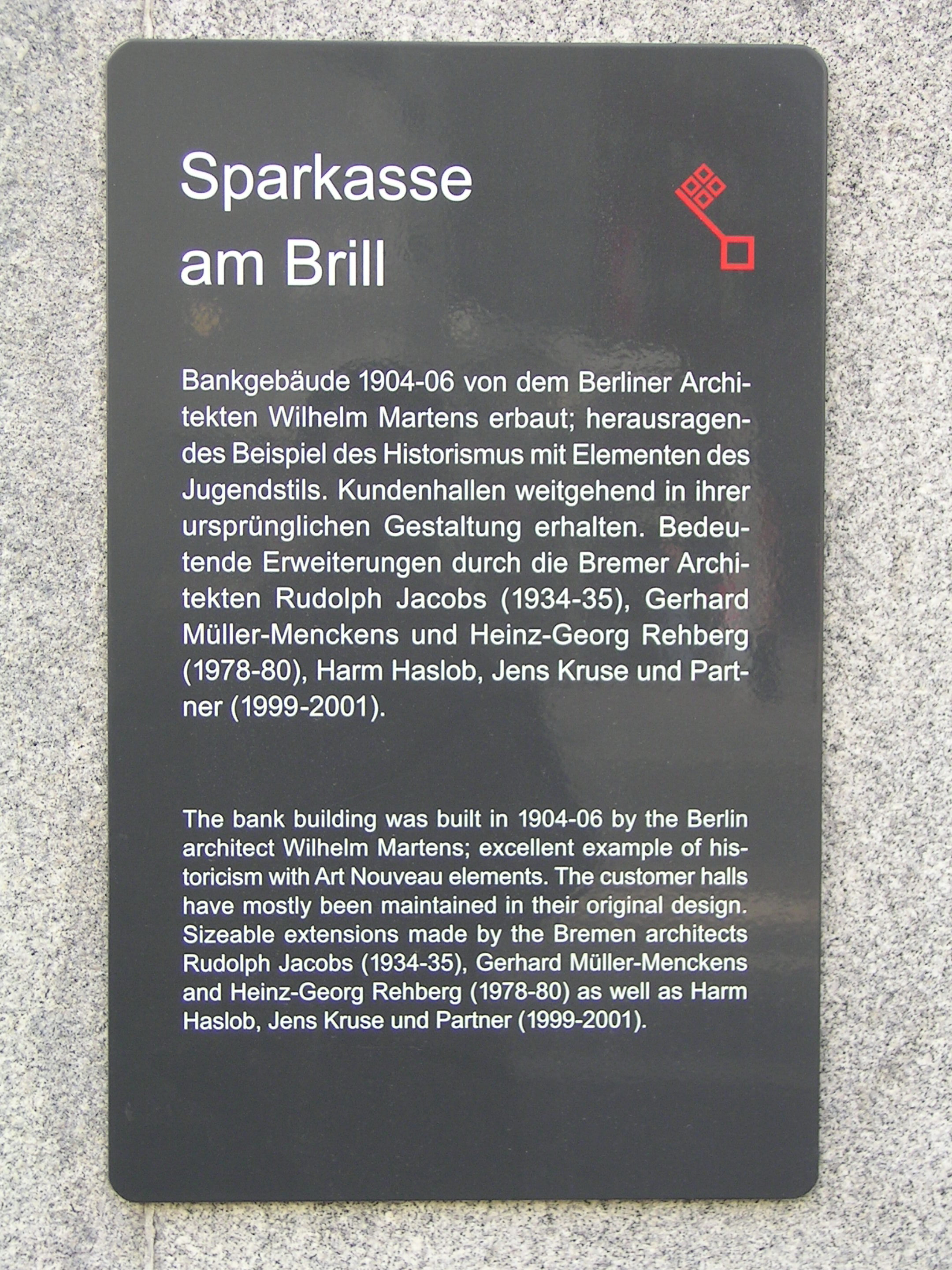 information plate Sparkasse, Am brill, Bremen User:Tarawneh/rami